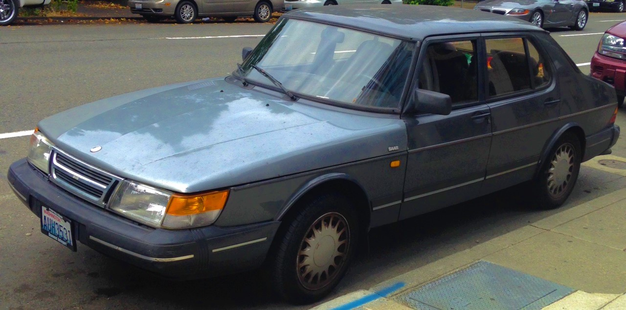 Saab 900 Sedan